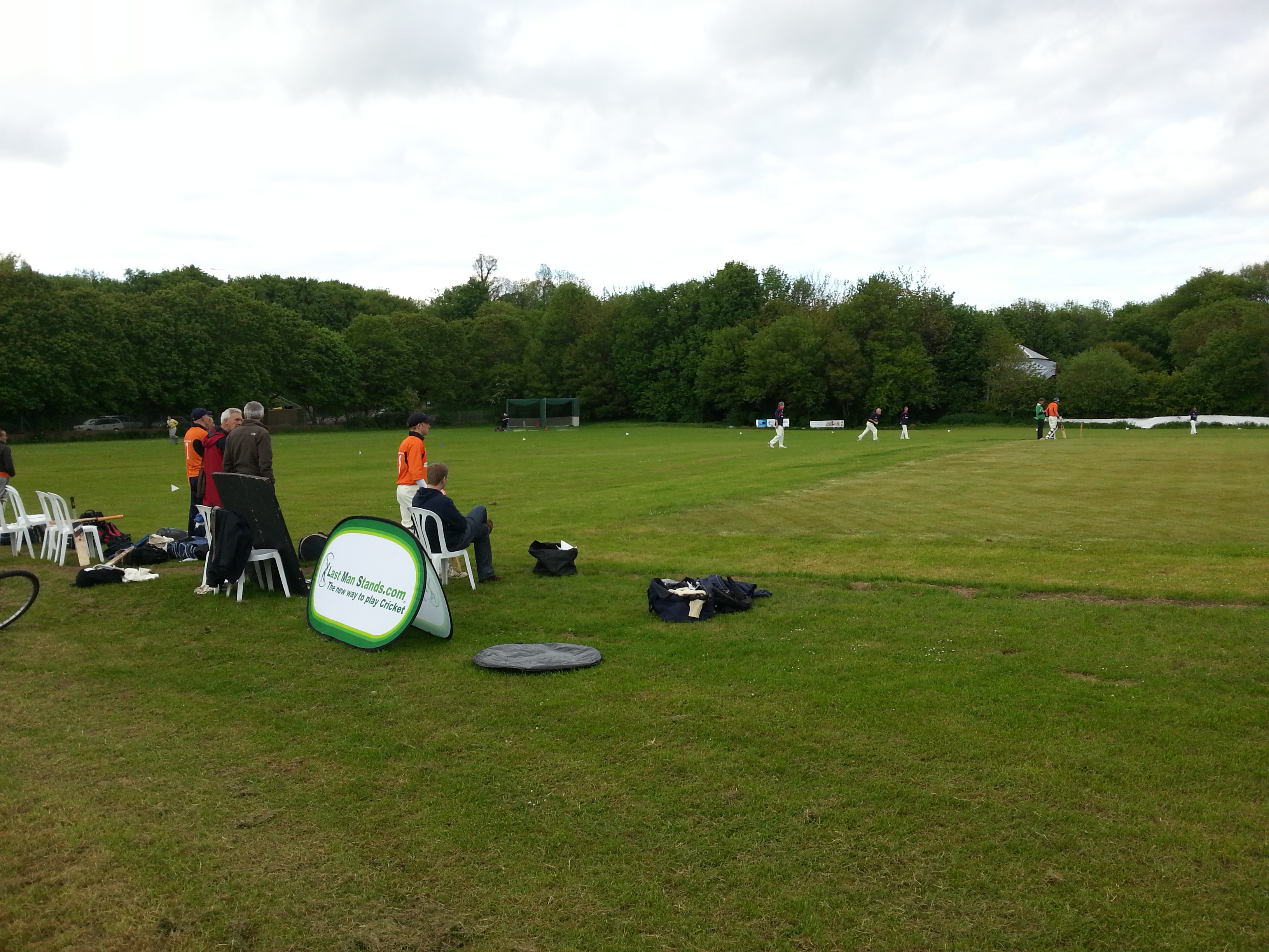 Lewes Priory Cricket Club playing evening cricket (last man stands) at the Stanley Turner Ground May 2013